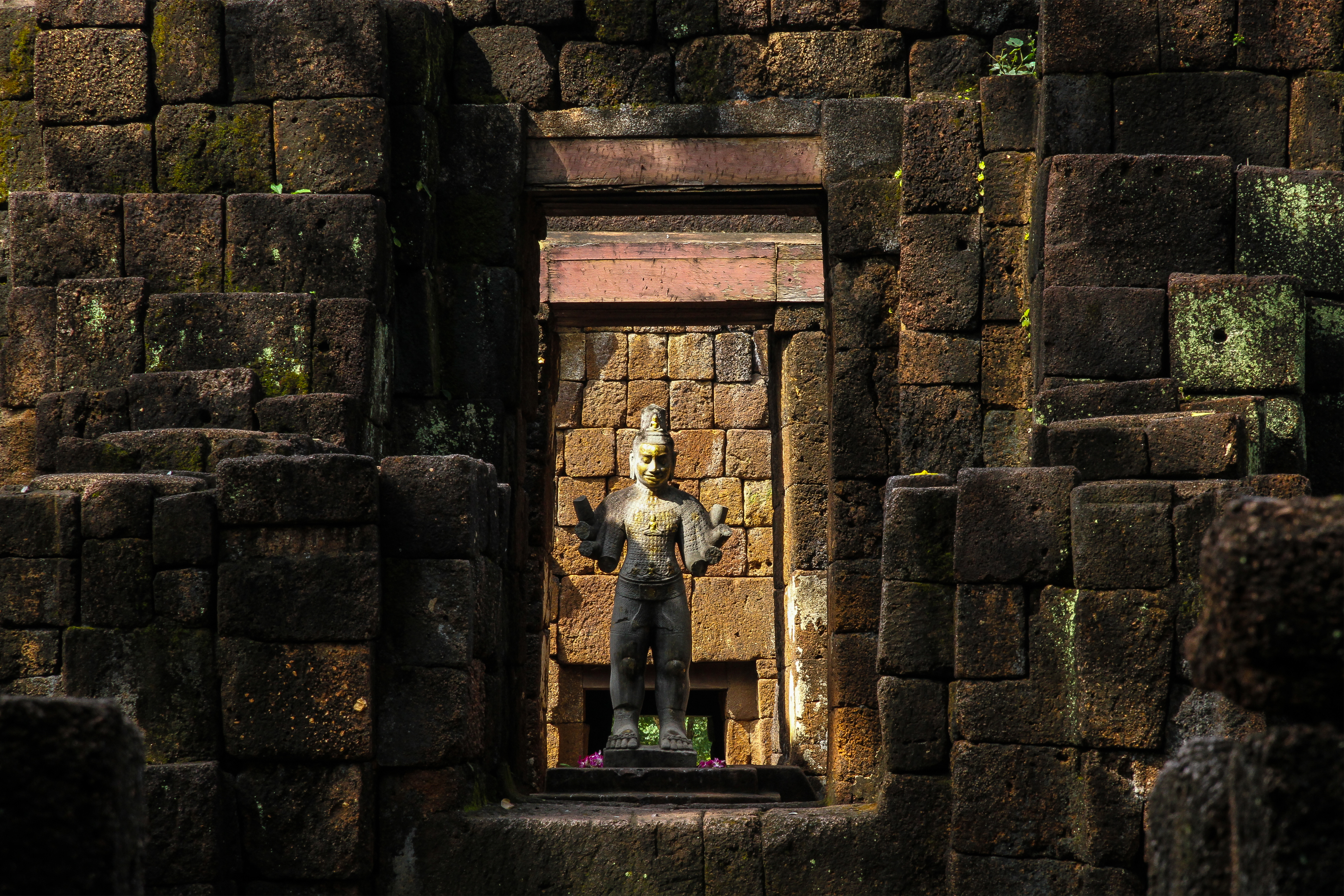 Figure of Avalokiteśvara Bodhisattva in the ancient monument No.1 of Mueang Sing Historical Park, Sing Subdistrict, Sai Yok District, Kanchanaburi Province